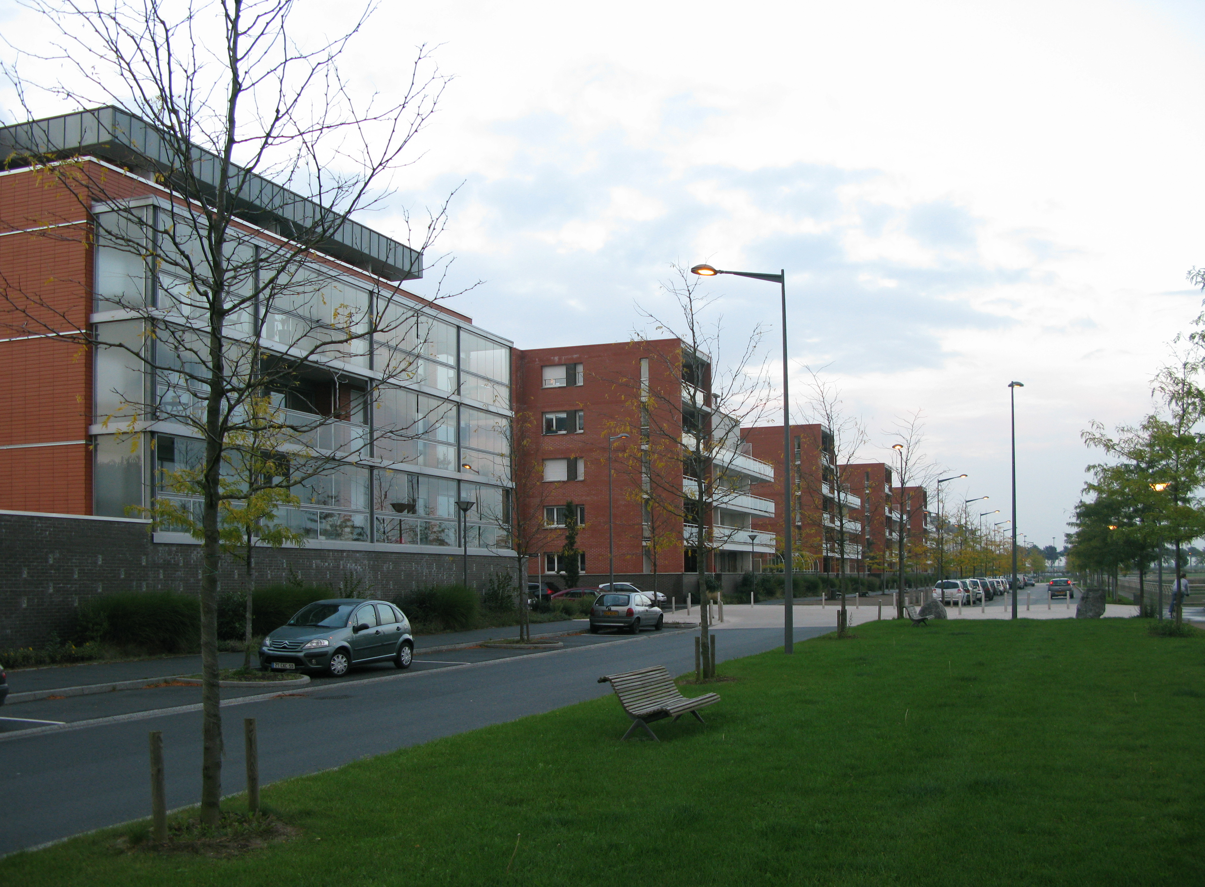 Modern buildings Hudson quay, in Haute-Borne, Villeneuve d'Ascq.